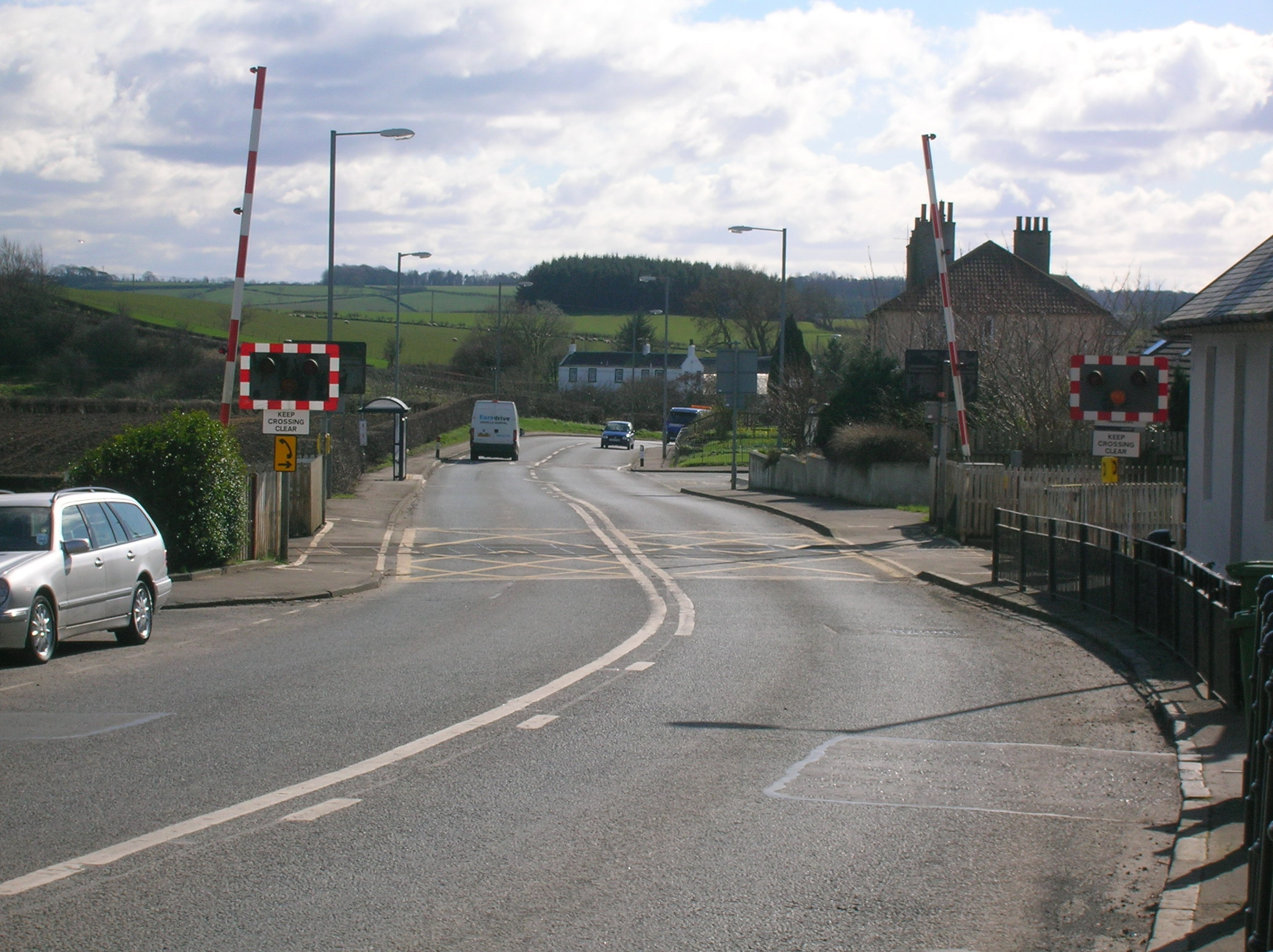 The level crossing at Gatehead in East Ayrshire, Scotland. 20-03-2007.